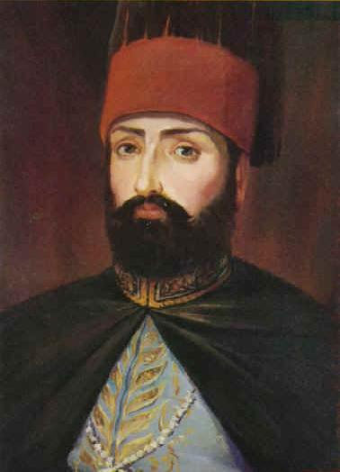 Sultan Mahmud II of the Ottoman Empire